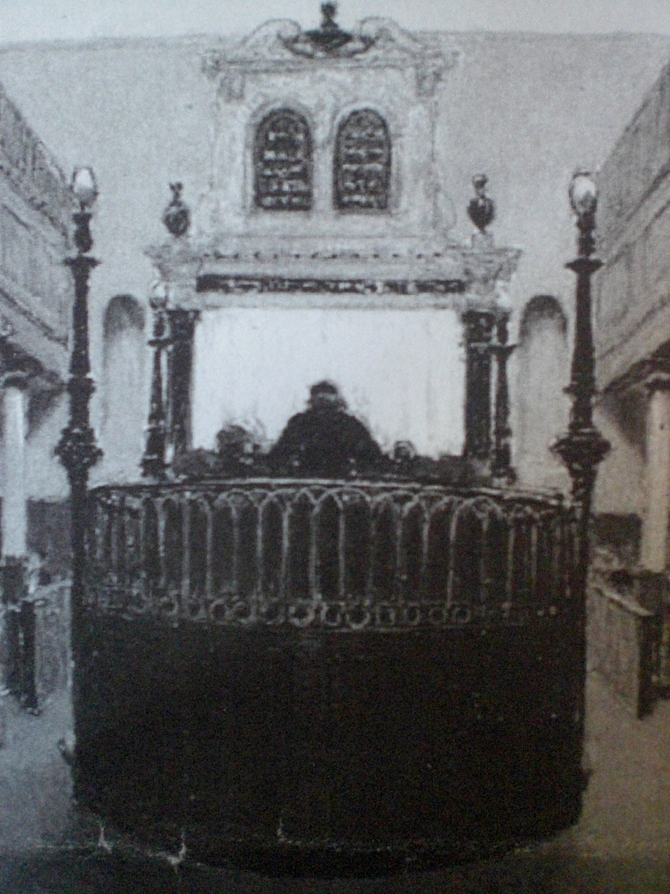 Painting of the bimah of Exeter Synagogue with Torah ark in background